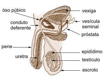 diagram of a cross-section of the male reproductive system